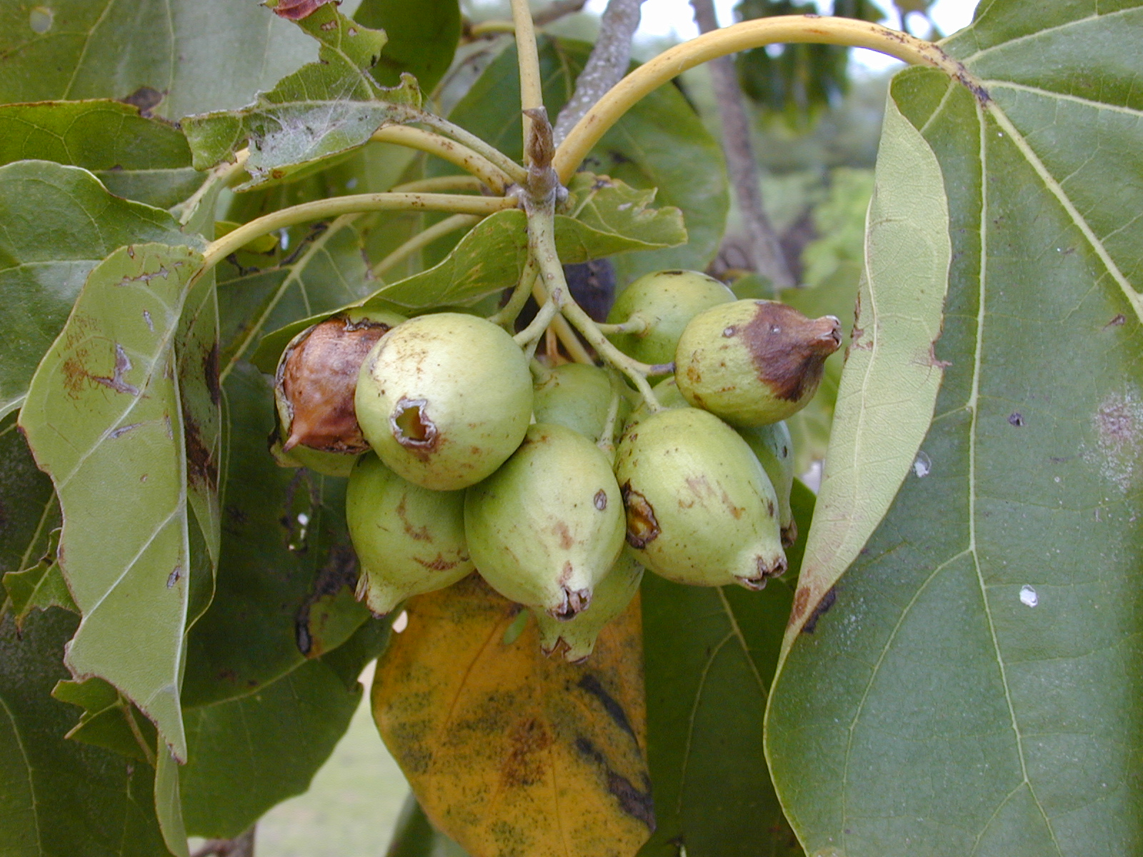 Cordia subcordata (fruits). Location: Maui, Kanaha Beach